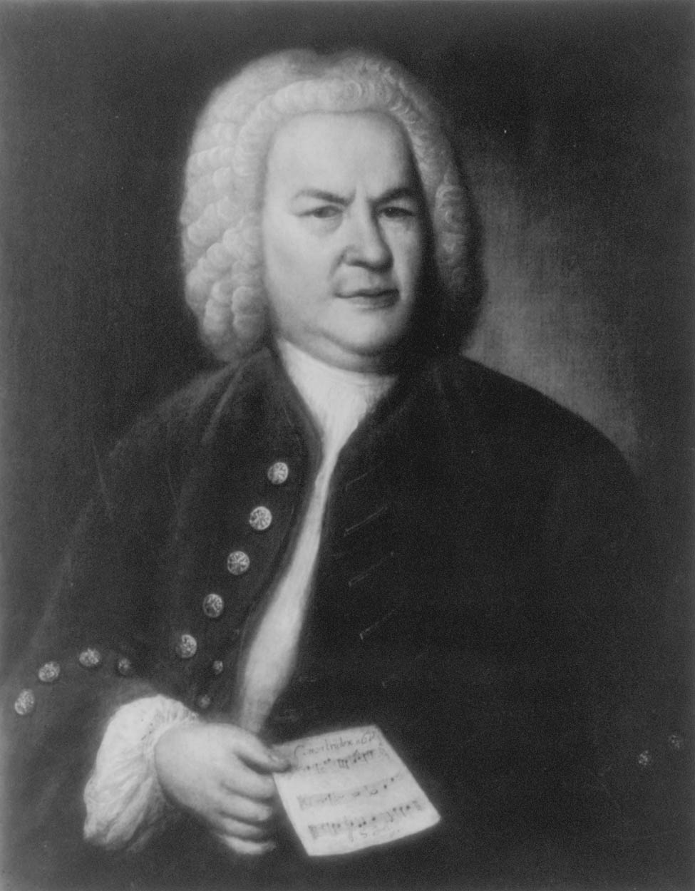 BACH, JOHANN SEBASTIAN. Reproduction of painting by Elias Gottlieb Haussmann in Stadtgeschichtliches Museum, Leipzig. [No date found on item.]